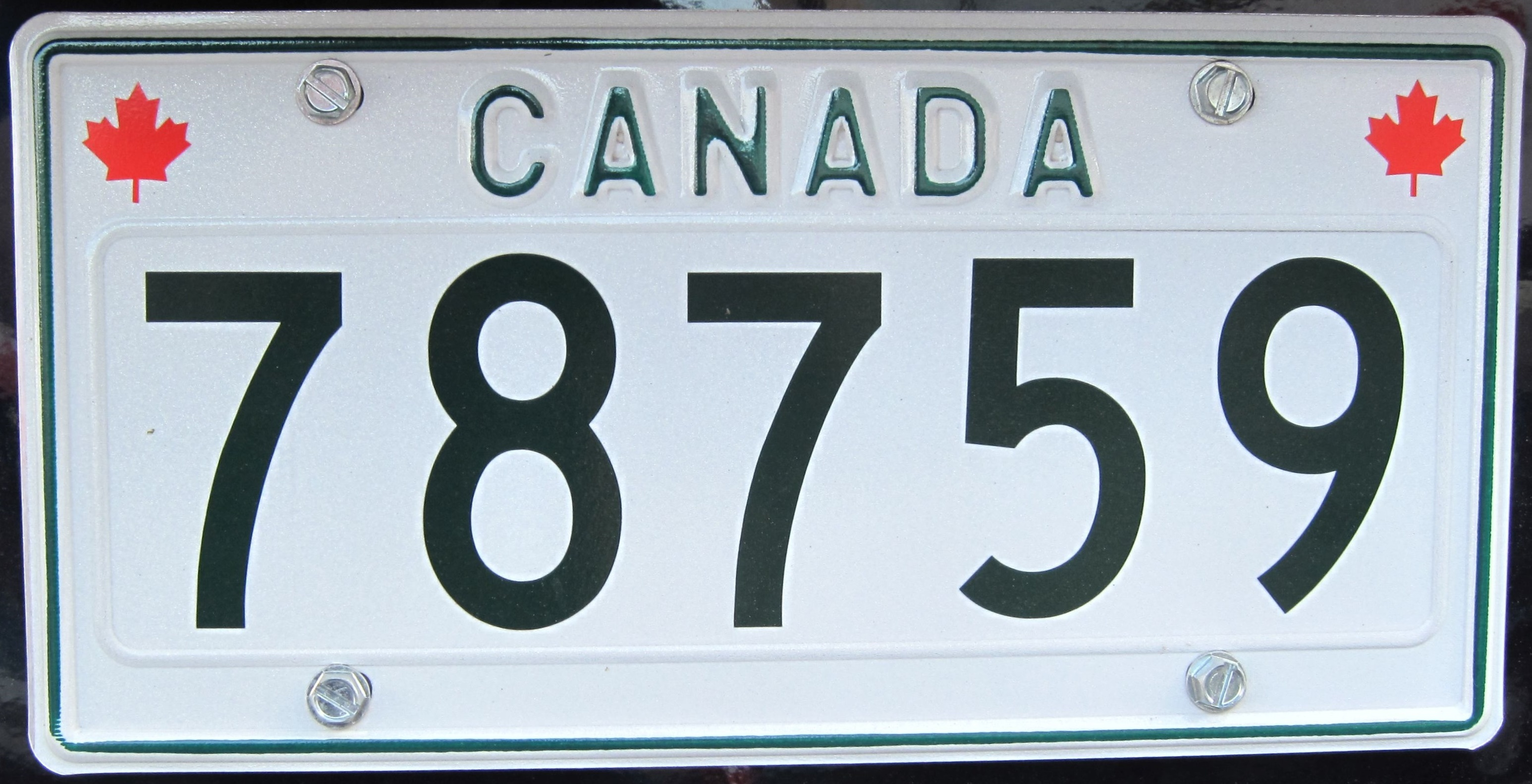 Canadian Federal license plate